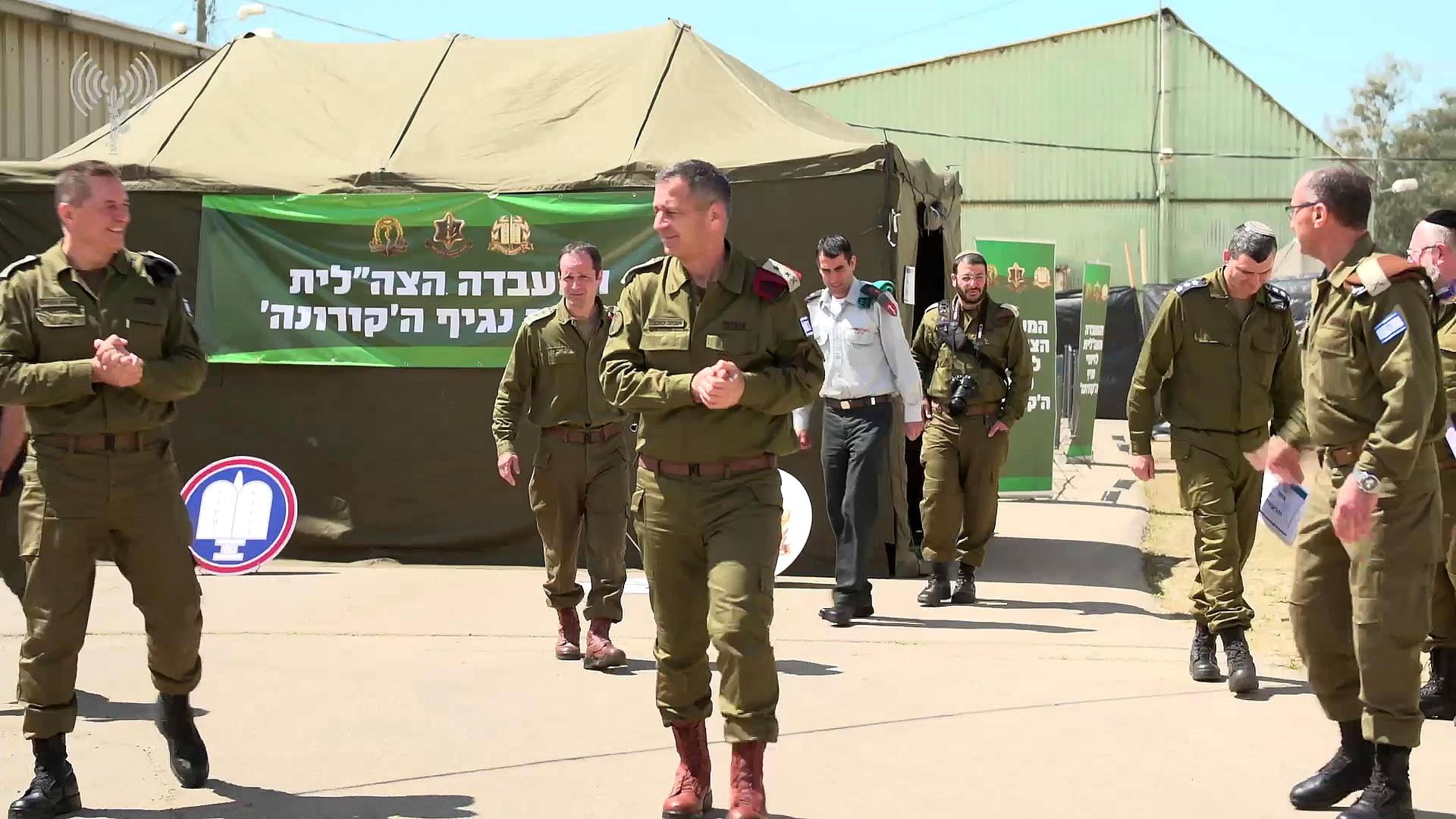 IDF Corona Laboratory established at Tzrifin Military Rabbinate.